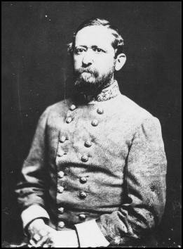 Arnold Elzey Jones Jr. (1816–1871), a career soldier in both the United States Army and the Confederate Army; a major general in the American Civil War.